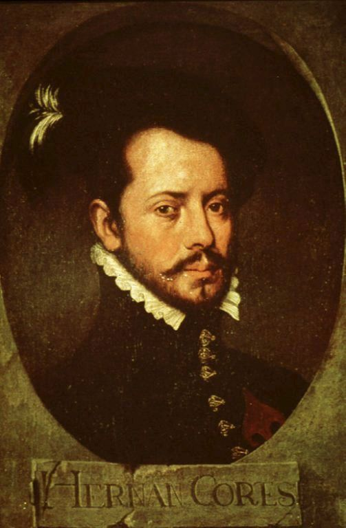 Portrait of Hernán Cortés (1485-1547)